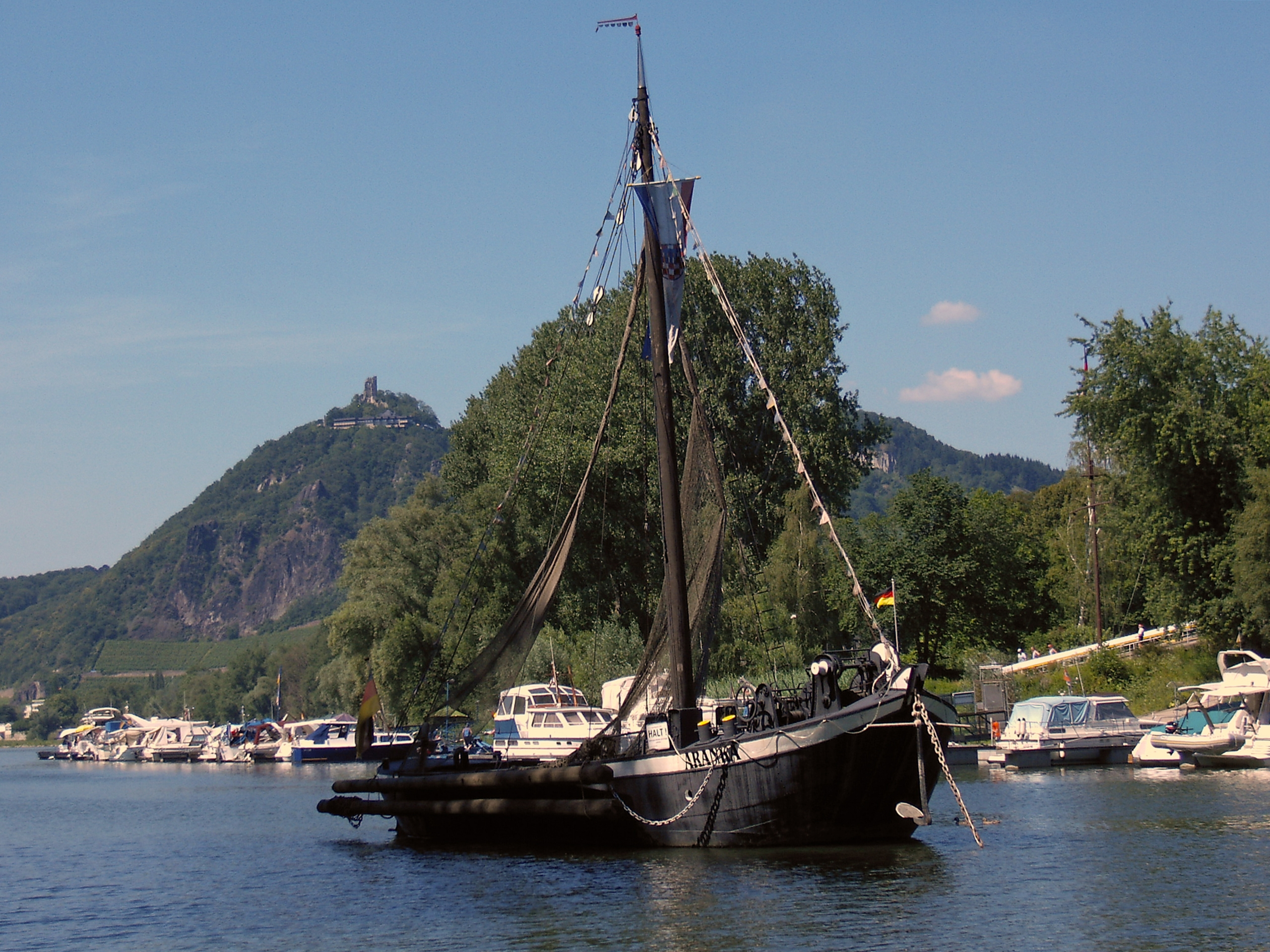 The fishing trawler “Aalschokker Aranka” between Bad Honnef and its island Grafenwerth.